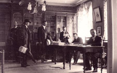 photos, sweden